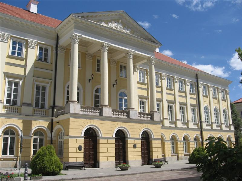 Kazimierz Palace, in Warsaw, Poland